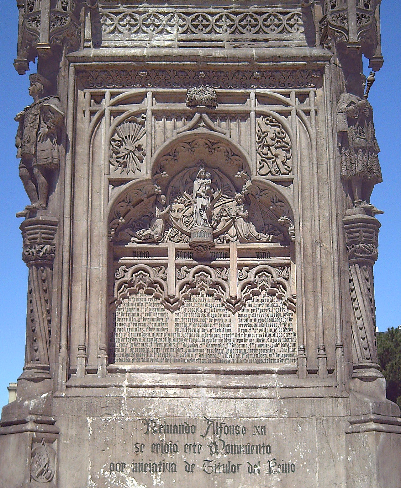 Detail of the monument to Christopher Colombus (1451?–1506) at the Plaza de Colón ("Columbus Square") in Madrid (Spain), built between 1881 and 1885. It's the southern side of the square base, sculpted in stone in a Neo-gothic style by Arturo Mélida (1849–1902). Relief represents a Madonna and Child (Our Lady of the Pillar) between two angels; below, the name of the three ships: Pinta (left), Santa María (centre) and Niña (right); and the names of those who took part in the enterprise. At the four corners of the base there are heralds below canopies.